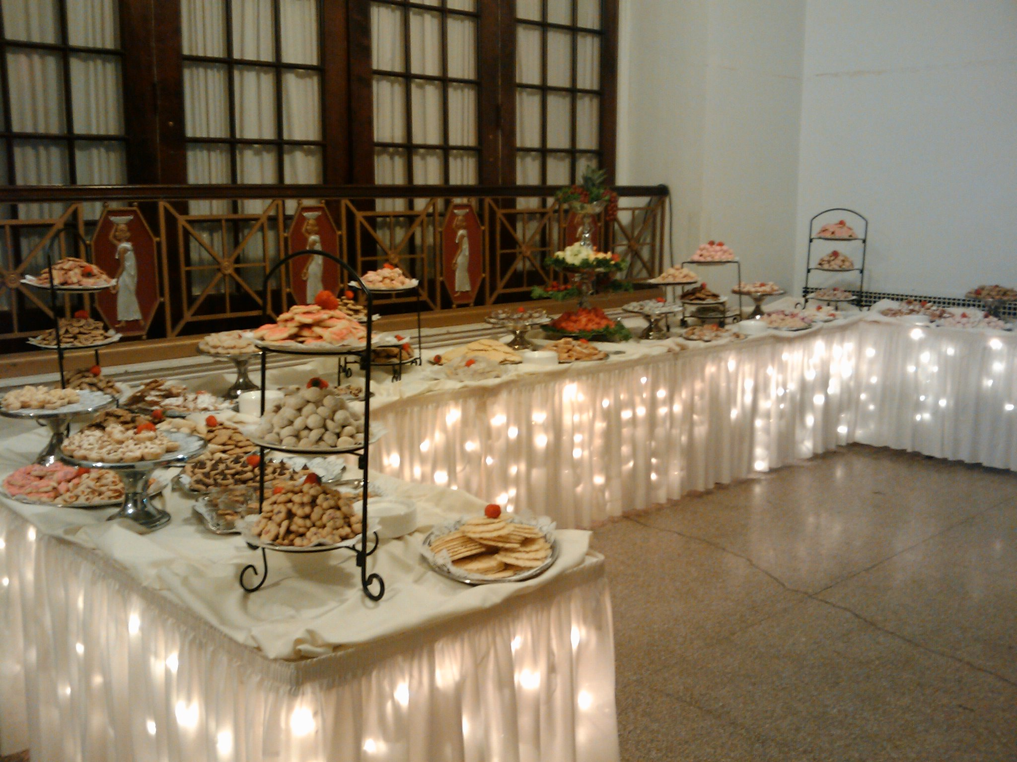 A cookie table at a Pittsburgh, Pennsylvania wedding in 2009.